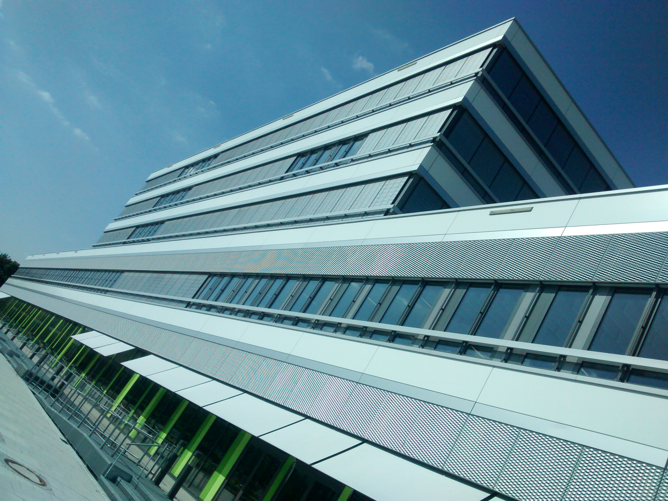 From outside, it looks like a bugfree building, but like all bigger todays operating systems, there will be plenty around.